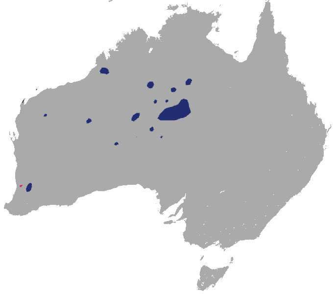 Black-flanked Rock Wallaby (Petrogale lateralis) range (blue — native, pink — reintroduced)